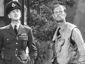 Photograph of David Niven and Wing Commander Bunny Currant in the film Spitfire (The First of the Few)